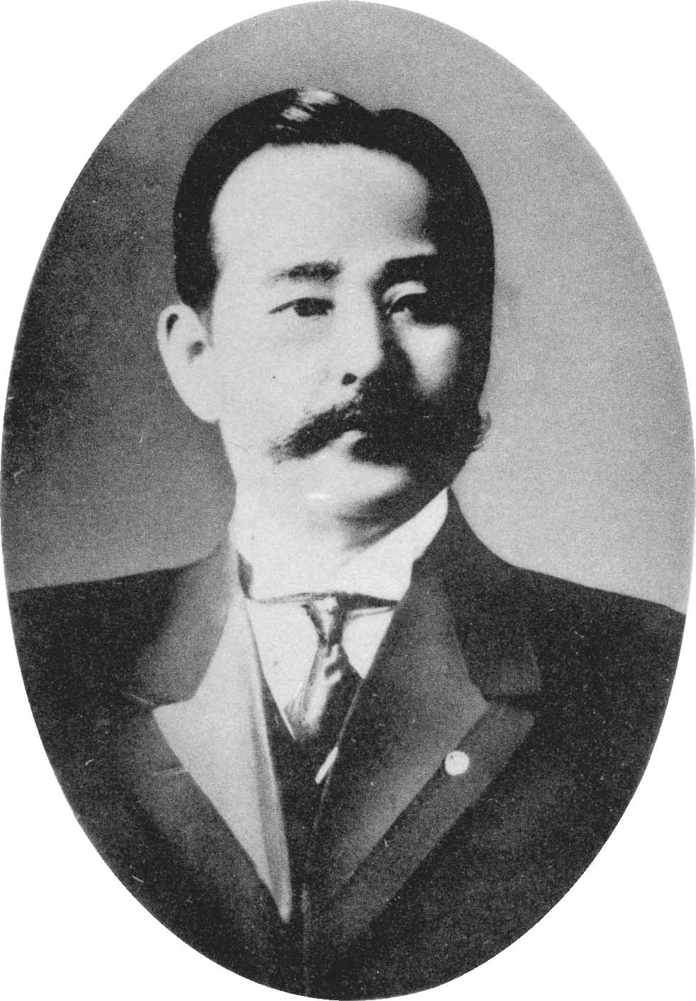 Kumakawa Muneo, Director of the College of Medicine at Imperial University of Tokyo.